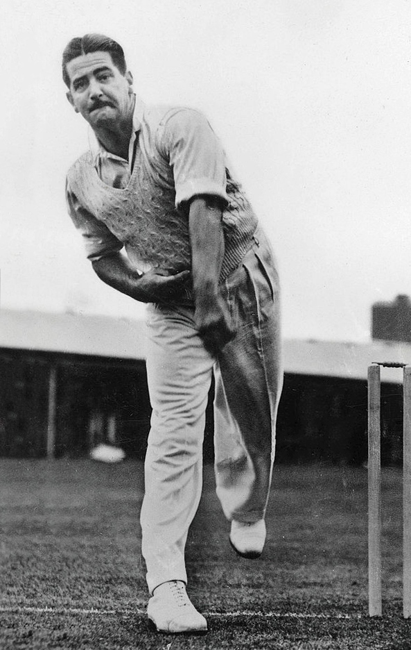 Cricket. Circa 1930. A picture of LO'B (Leslie O'Brien) Fleetwood-Smith, the Australia, and Victoria left arm back of the hand spin bowler spin bowler, seen here after bowling a delivery.